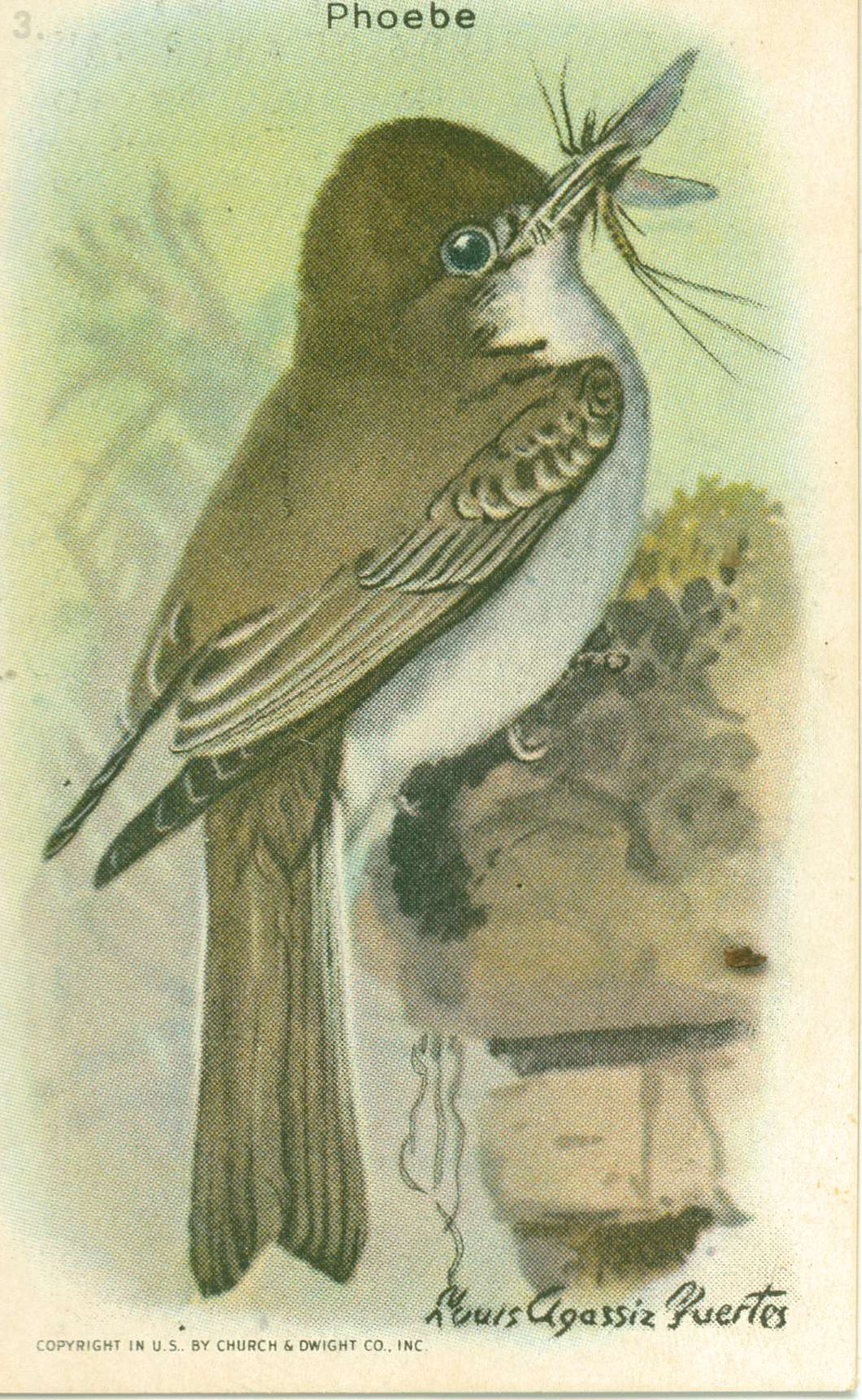 Useful Birds of America Series 9 Card 3. This series of cards, produced by Church & Dwight Co. during the early 1900s promoting North American birds, were packaged in boxes of baking soda for collectible purposes. This one in particular shows an Eastern Phoebe Sayornis phoebe.